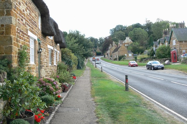 Part of Main Street, Rockingham, Northamptonshire